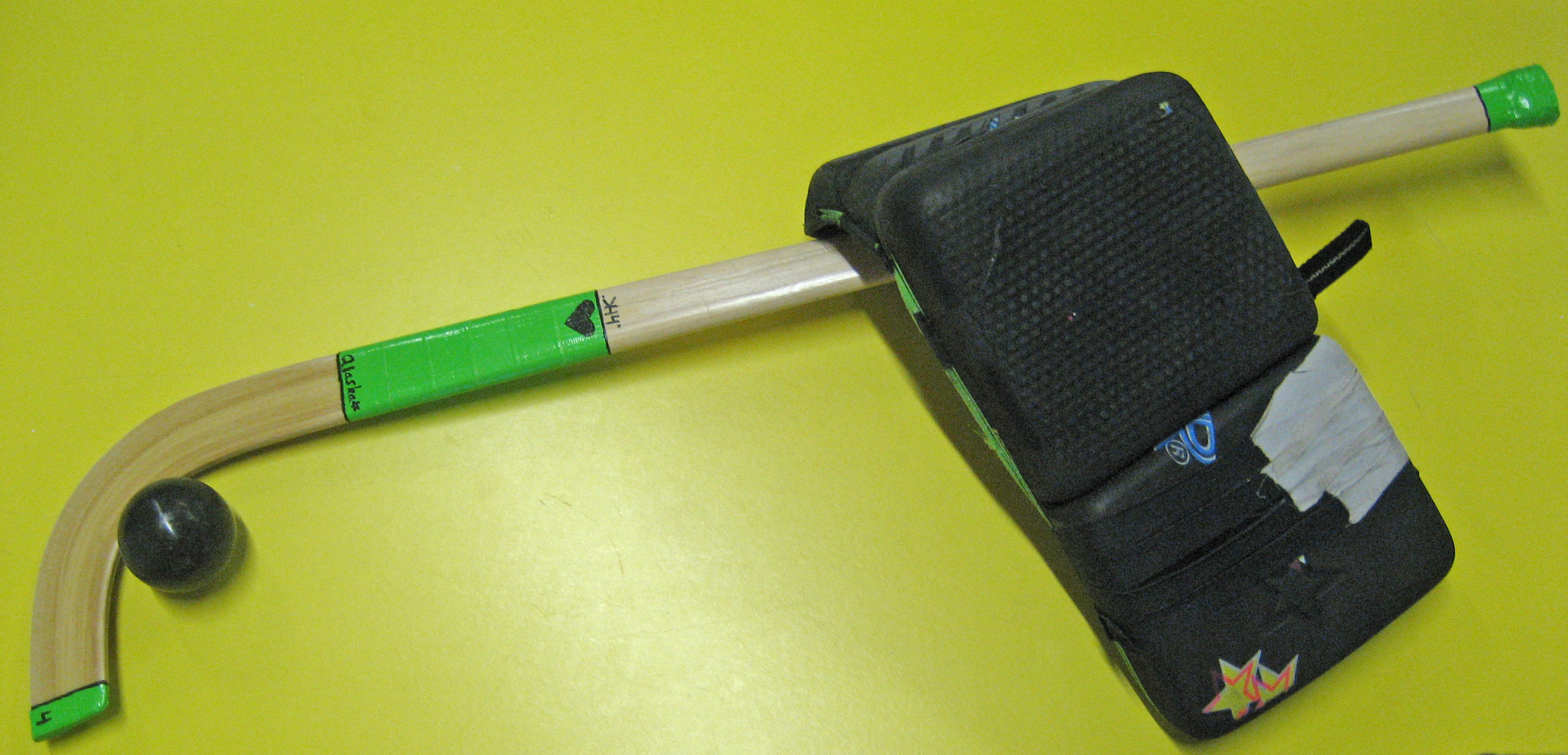 Roller hockey (Quad) Goalie uses a blocking stick glove that provides rebound characteristics when blockiing a shot on goal while also providing access to a stick. This image shows the items together in context